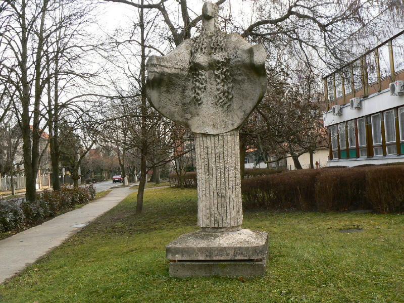 Gyöngyi Szathmáry sculptor, Hygieia statue, Szeged, 1983